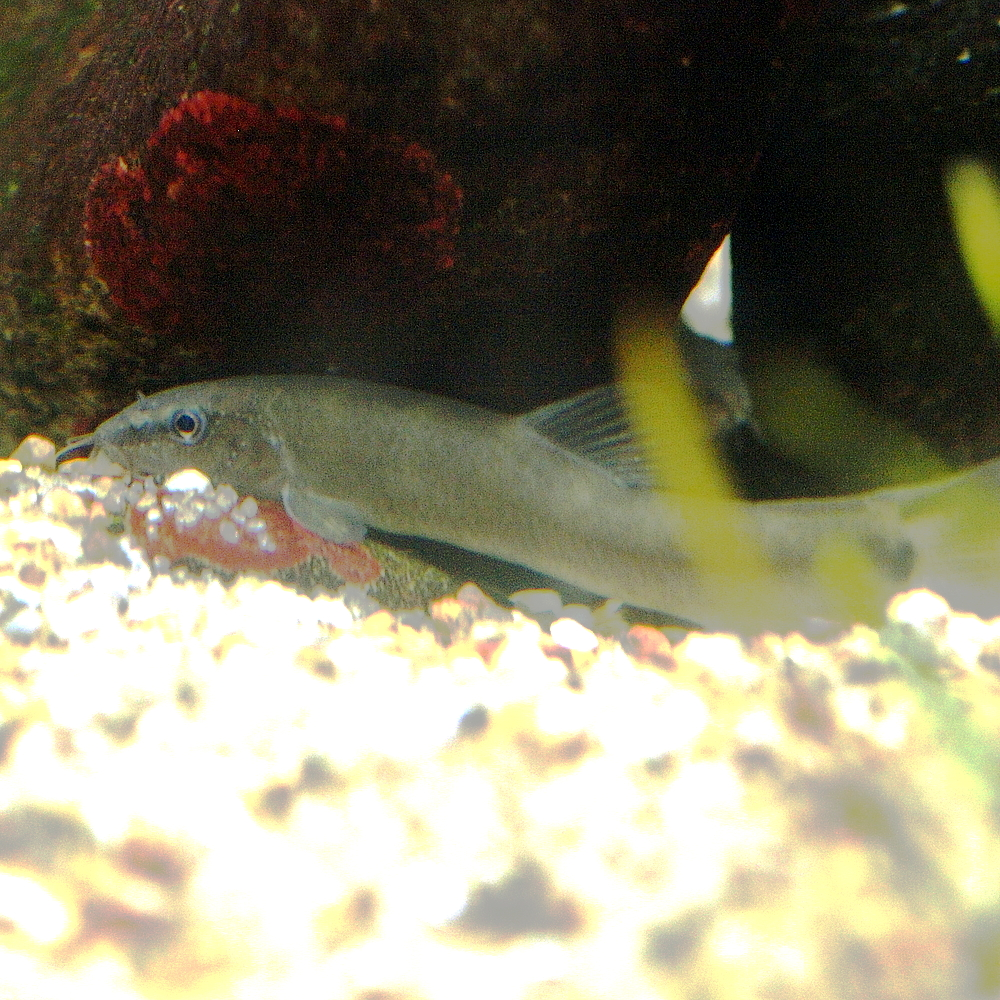 Ayumodoki, Kissing Loach Regnum: Animalia • Phylum: Chordata • Classis: Actinopterygii • Ordo: Cypriniformes • Familia: Cobitidae • Genus: Leptobotia Wikispecies has an entry on: Leptobotia curta. Species Leptobotia curta (Temminck & Schlegel, 1846) 動物界 脊索動物門 条鰭綱 コイ目 ドジョウ科 アユモドキ属 Location: Osaka Suido Kinenkan (water supply memorial museum), Japan Other photos: NCBI Taxonomy ID:437320 ITIS link: Leptobotia curta (Temminck & Schlegel, 1846) (mirror)